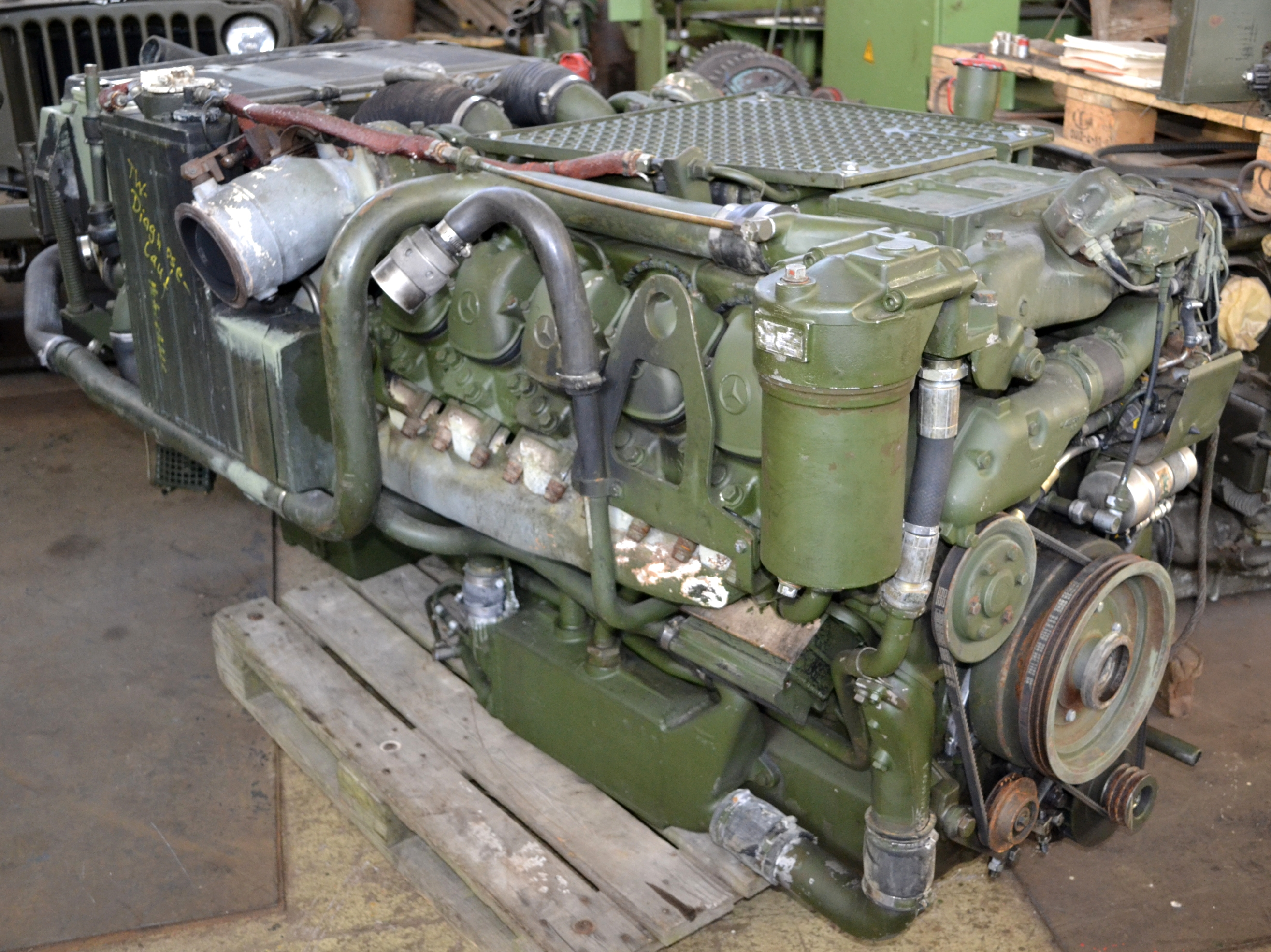 A Daimler-Benz OM 403A 10-Cylinder-multi-fuel engine of a German-built Luchs reconnaissance armoured fighting vehicle.